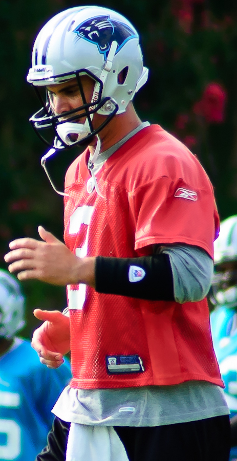 Carolina Panthers Training Camp on August 11, 2010 at Wofford College in Spartanburg, SC.